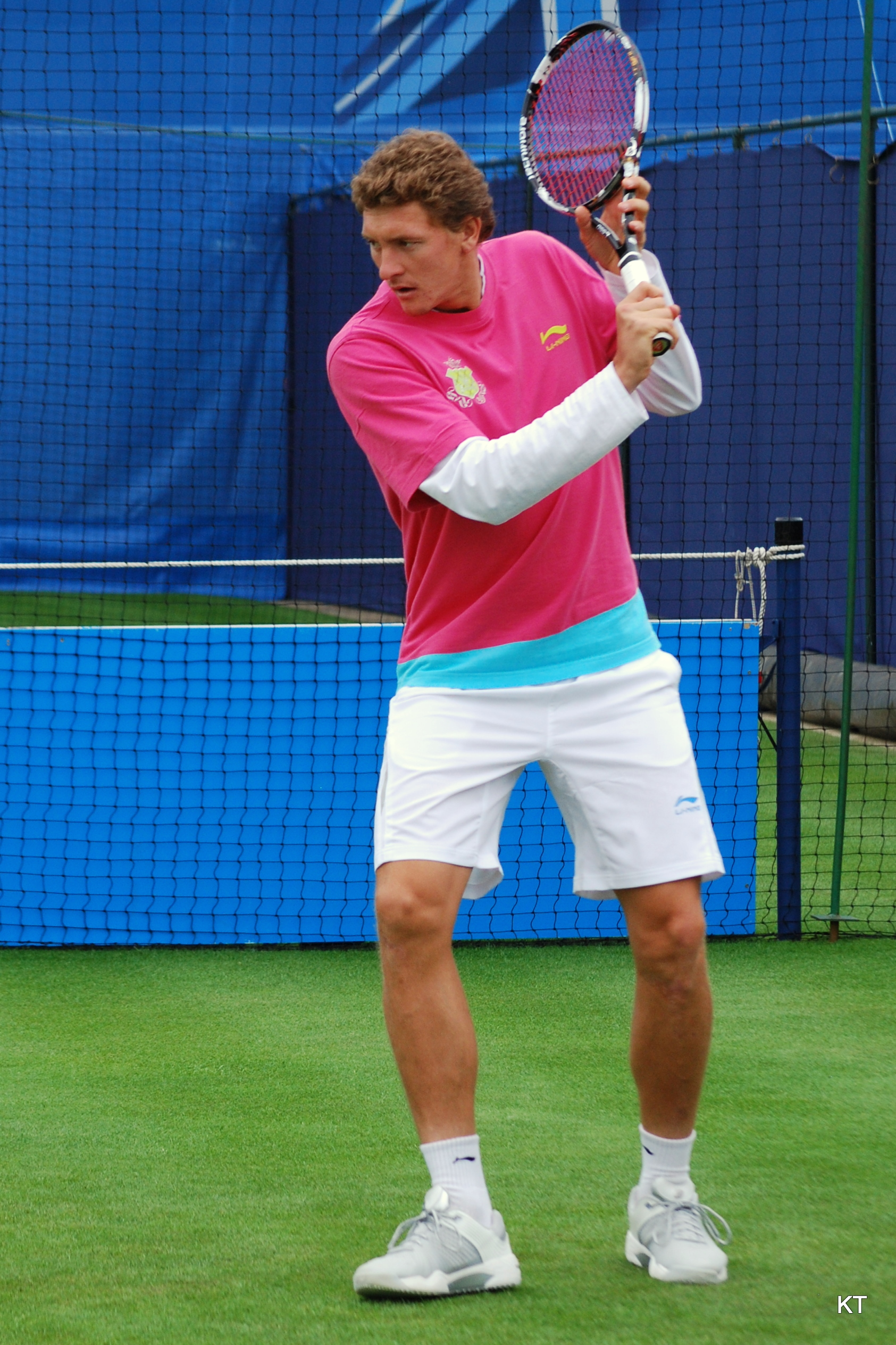 On the practice court. Day 1 of the Aegon Championships, Queen's Club 2011.